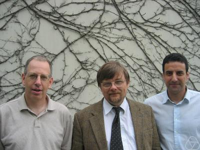 Photo of Amir Dembo, Terence Lyons and Gerard Ben Arous